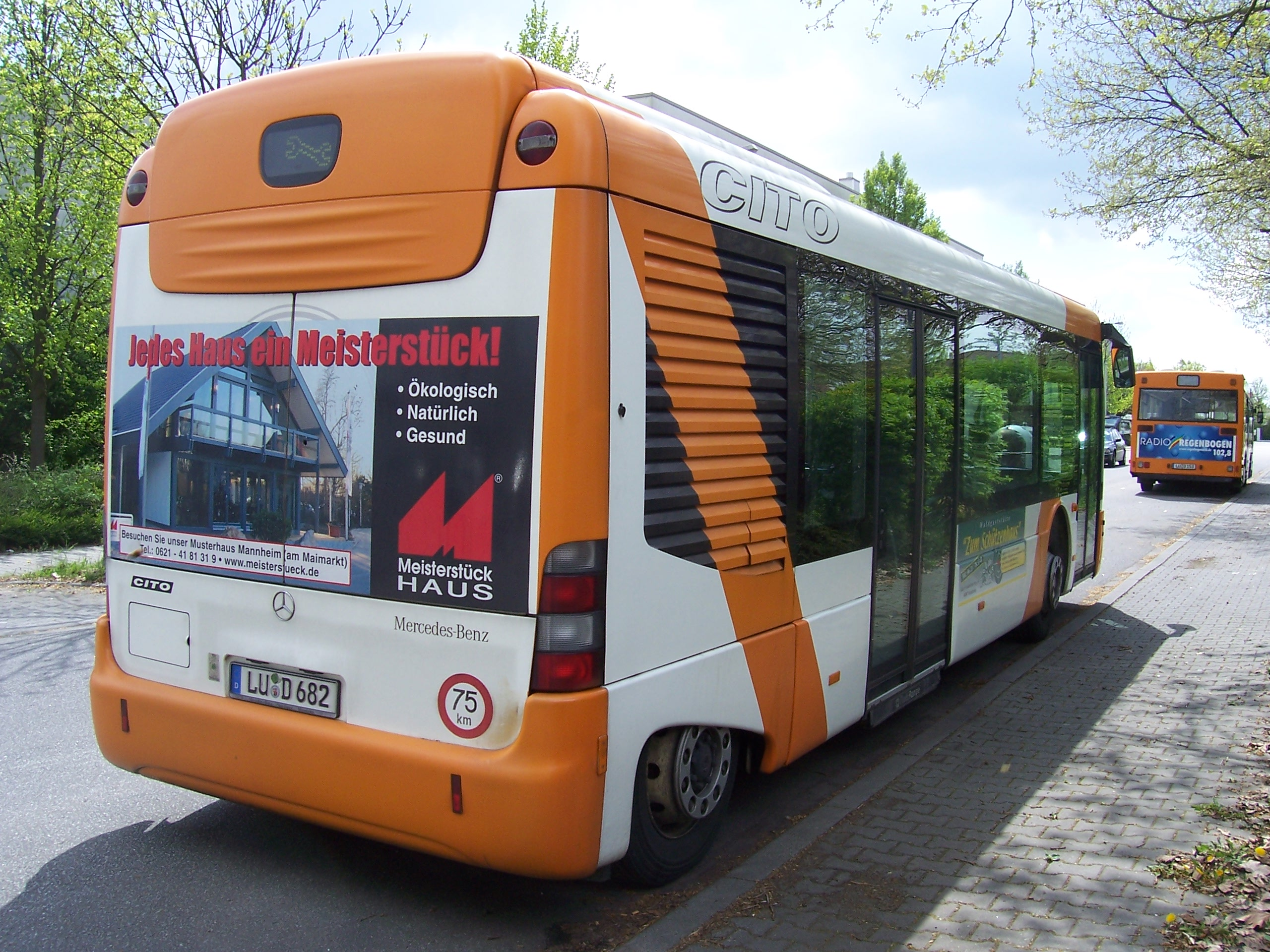 An EvoBus/Mercedes-Benz Cito midibus in Mannheim, Germany